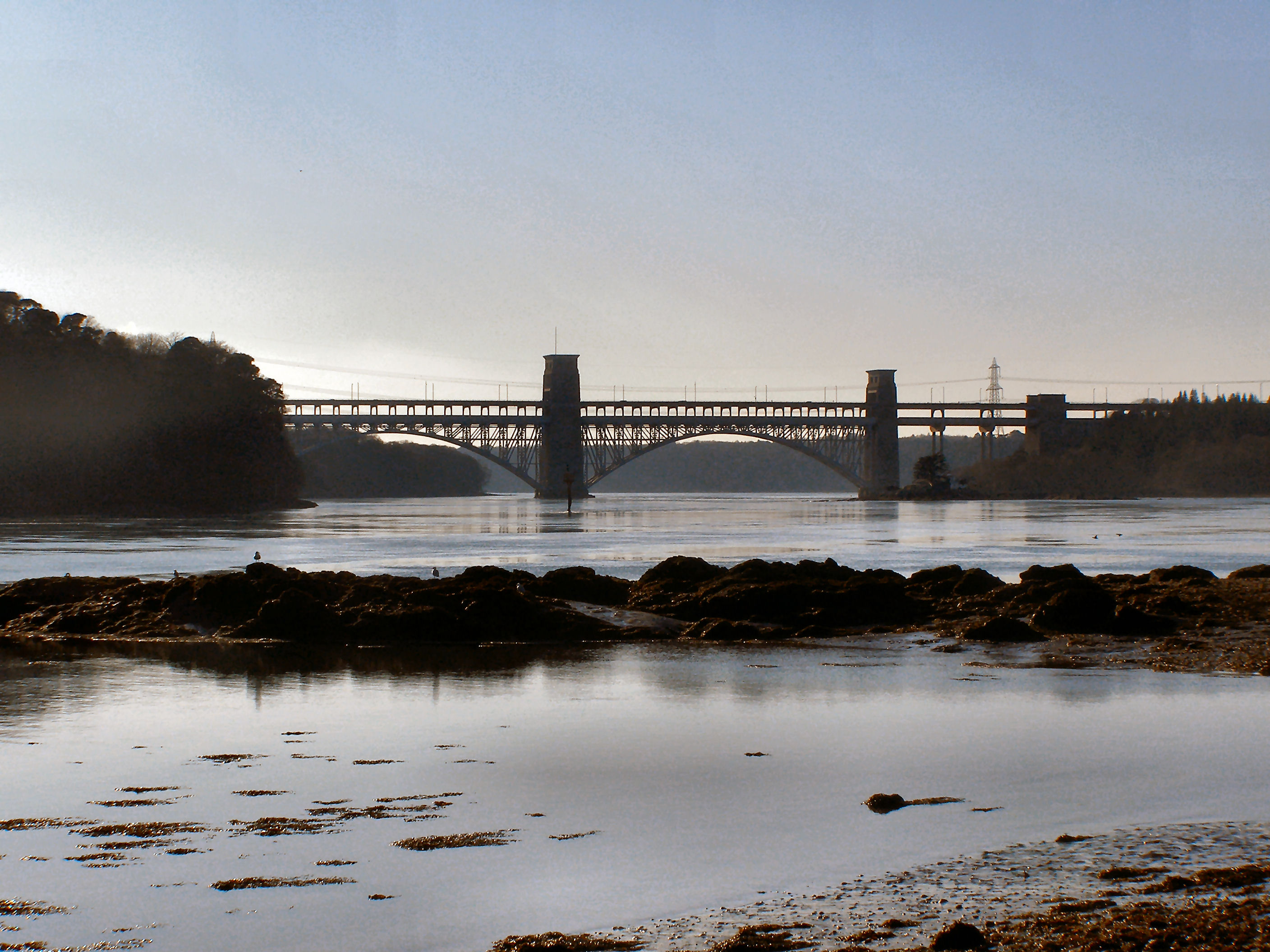 Britannia Bridge Viewed from the Belgian Promenade at Menai Bridge.